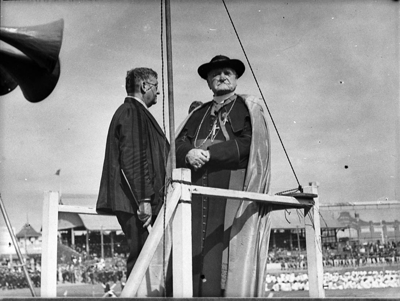 Archbishop Michael Kelly pictured at the 1939 Saint Patrick's Day celebrations held at the Sydney Showgrounds in Paddington, Sydney, New South Wales, Australia. Image captured by Sam Hood. Format: Photograph Find more detailed information about this photograph: .au/item/itemDetailPaged.aspx?itemID=35563 From the collection of the State Library of New South Wales